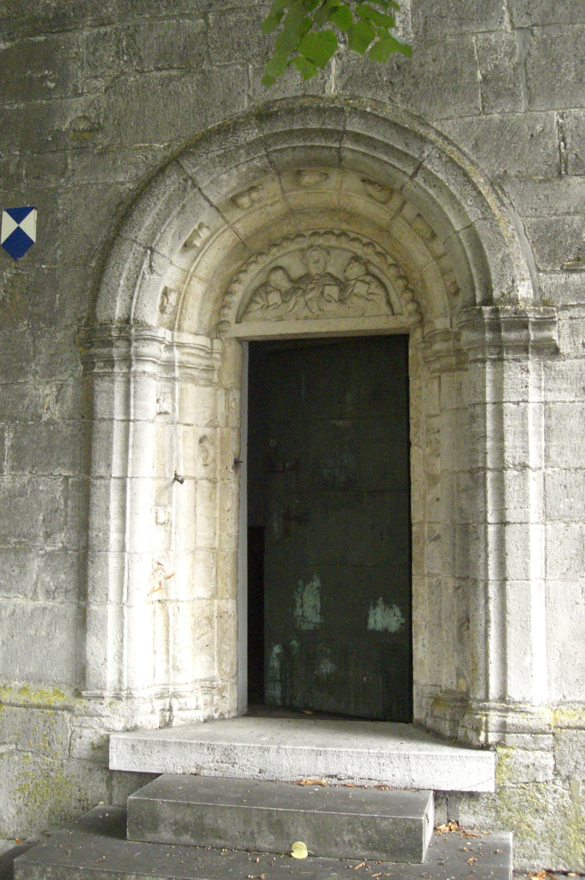 Portal of Saint Leonard church in Tholbath near Theißing seen from South. Romanic, sanctified in 1190.